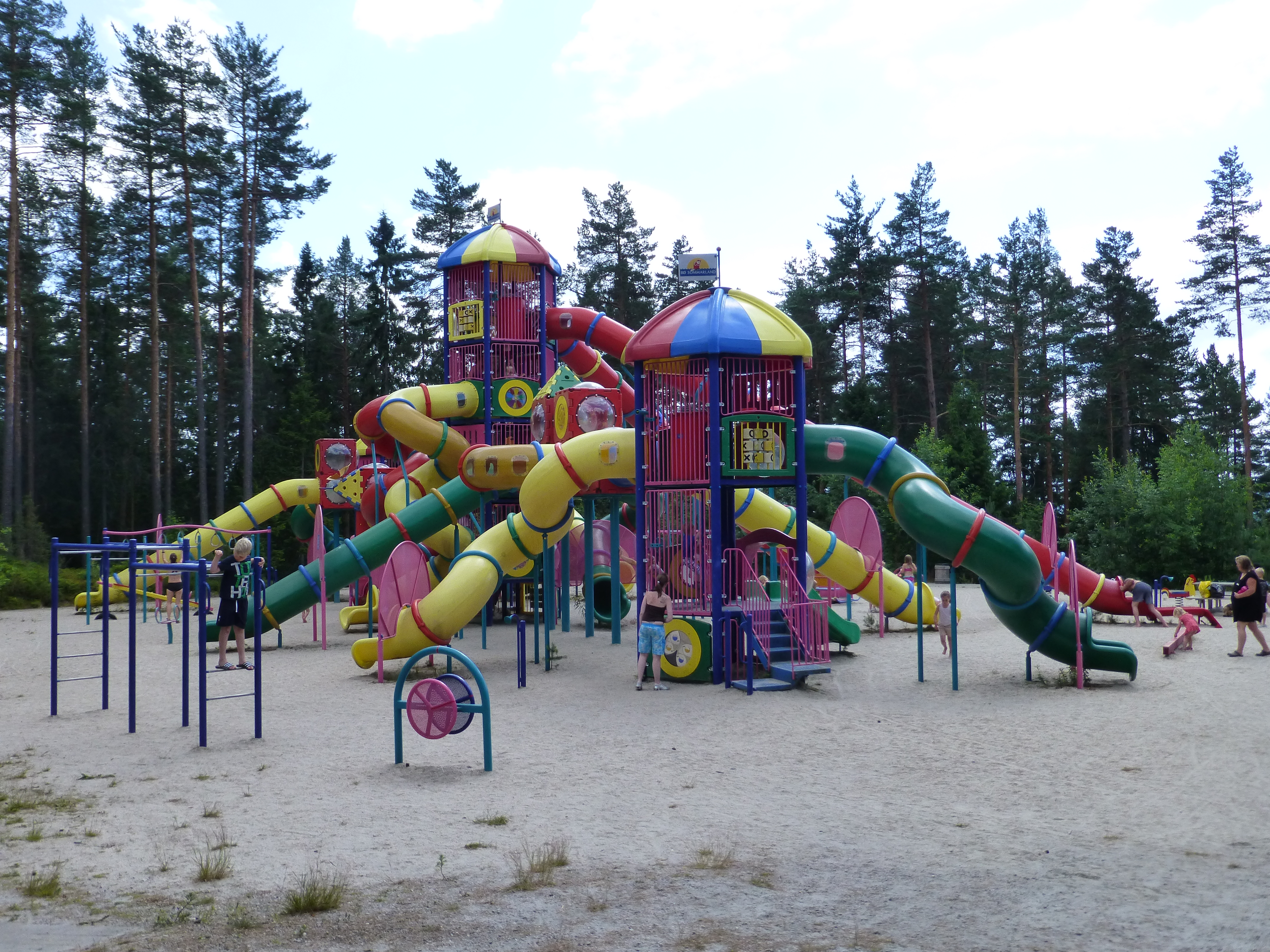 Playground in Norwegian amusement park "Bø Sommarland" in Bø, Telemark.